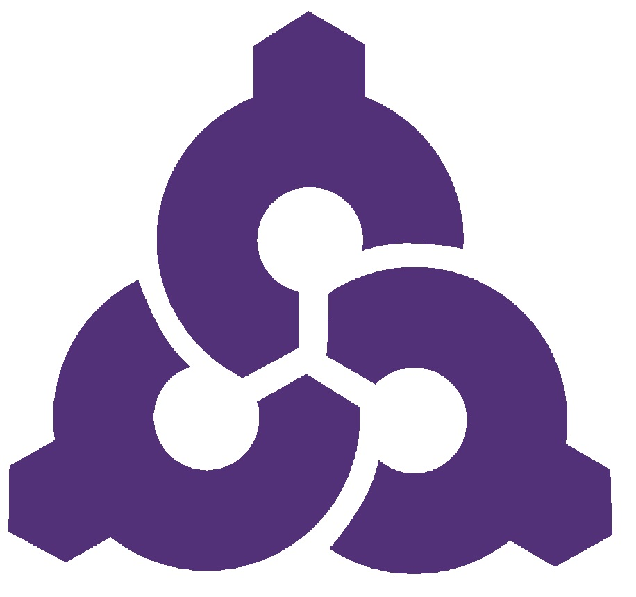 Tomigusuku Okinawa chapter